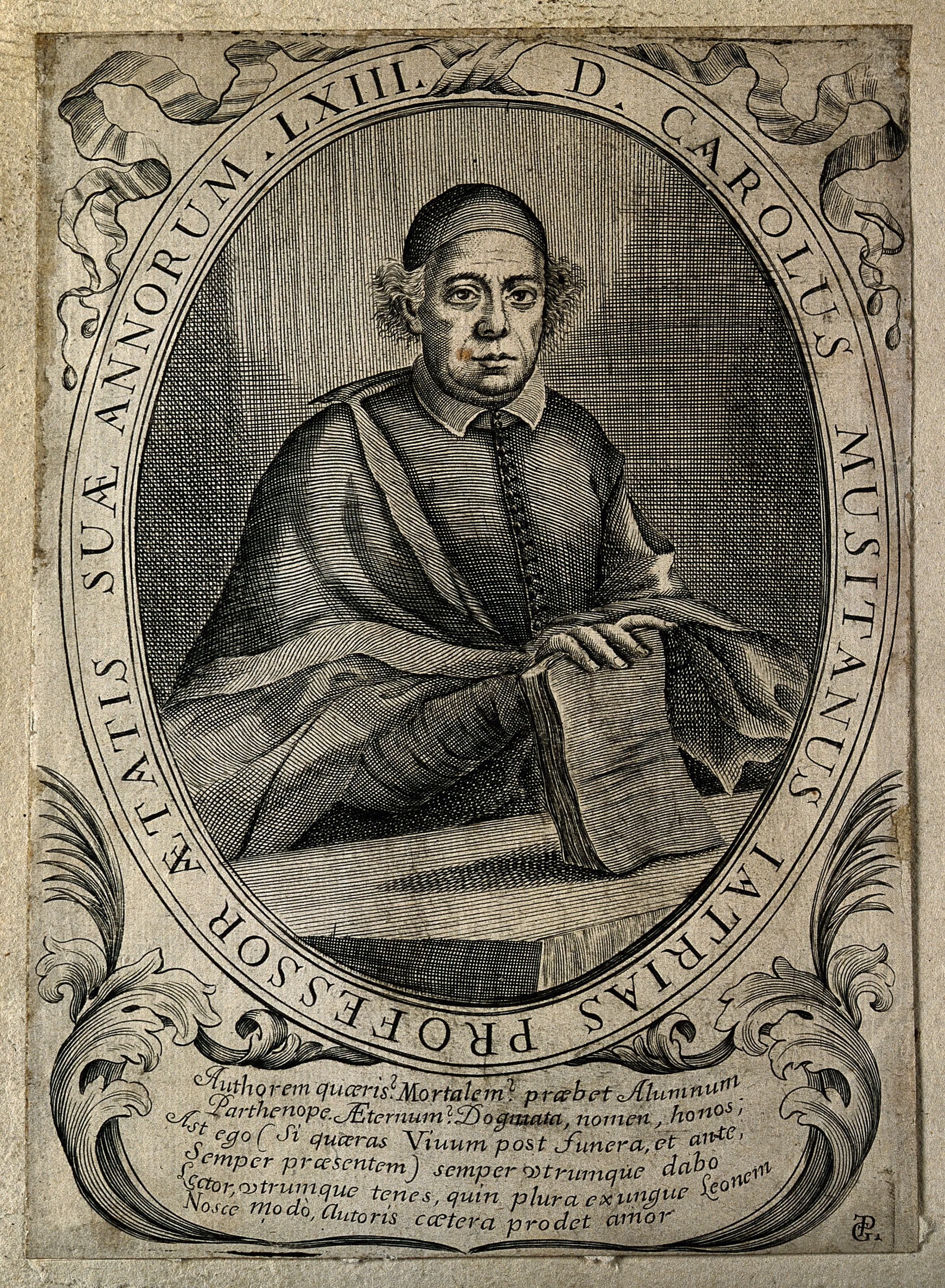 Carolus Musitanus. Line engraving by [P. G.], 1709. Iconographic Collections Keywords: portrait prints; Carolus Musitanus; engravings